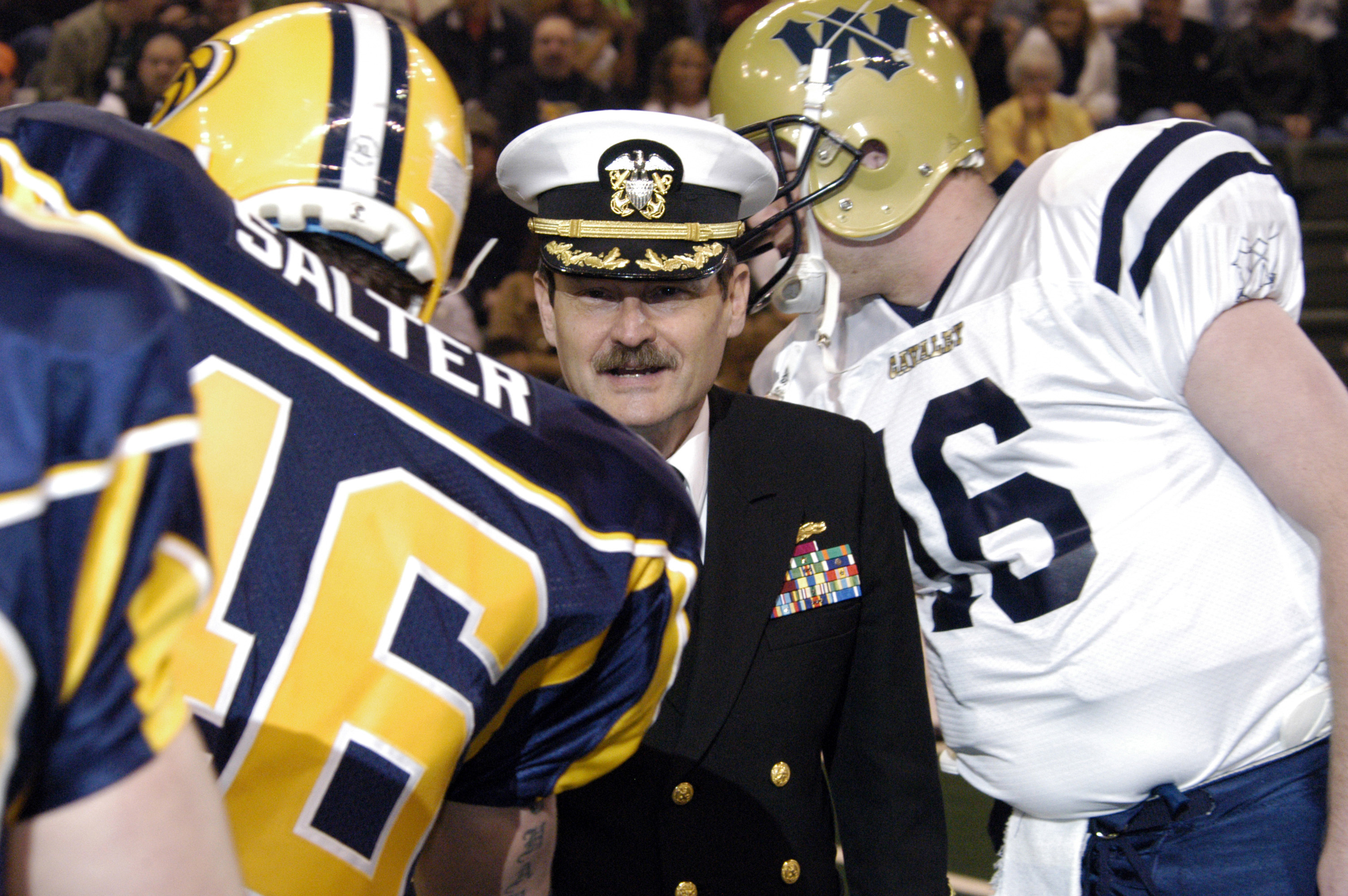 Everett, Wash. (Apr. 3, 2005) - Commanding Officer, Naval Station Everett, Capt. Eddie Gardiner, shakes hands with players of the National Indoor Football League during Military Appreciation Night at the Everett Events Center, Everett, Wash. The Everett Hawks played the Wyoming Cavalry, and players and fans collected donated footballs, basketballs and soccer balls to send to military personnel serving in Iraq. U.S. Navy photo by Photographer's Mate 2nd Class Shaun McWhinney (RELEASED)